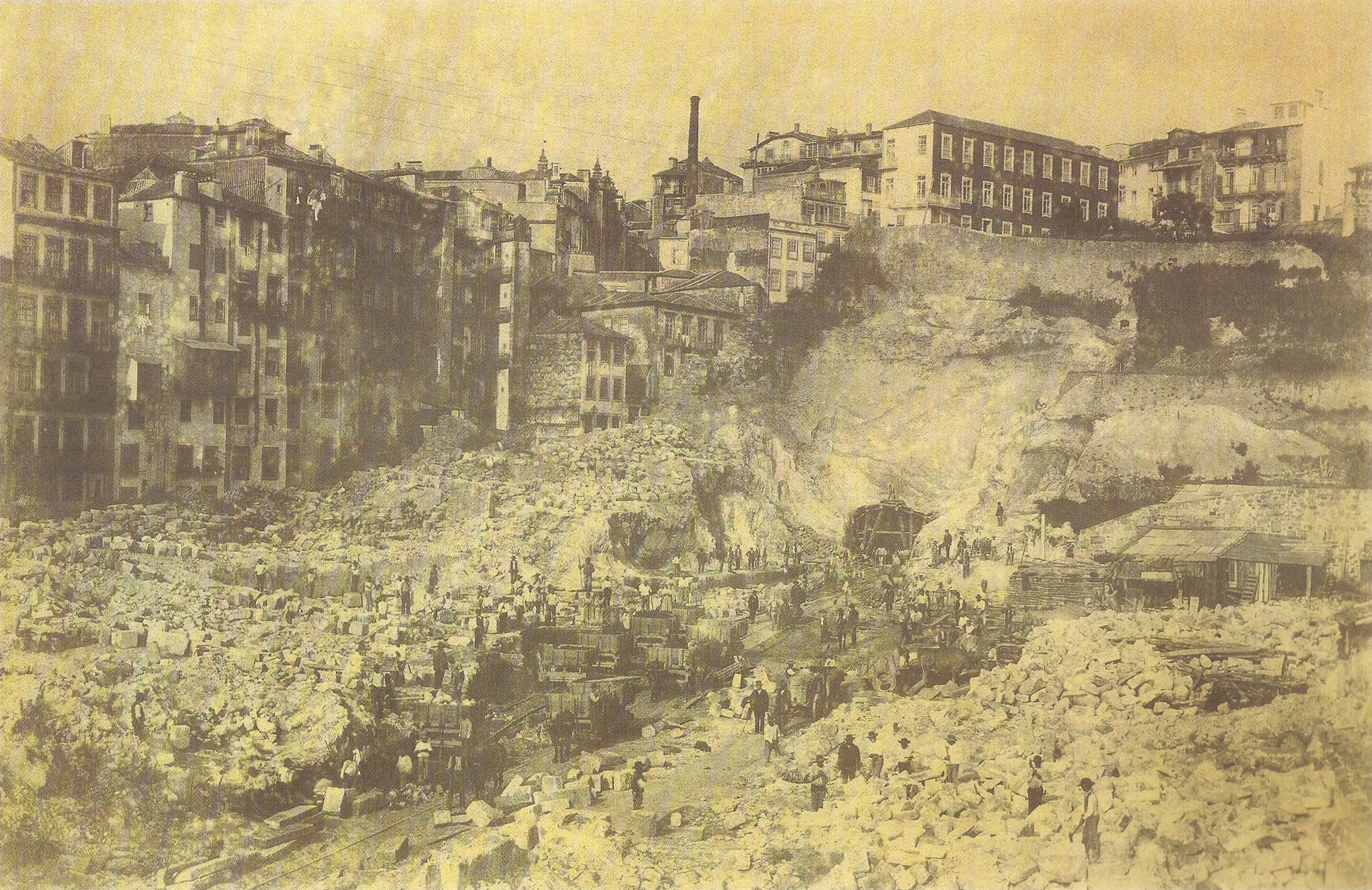 Construction works of the São Bento Railway Station, in the city of Porto, in Portugal. The works started in 1890, and the temporary station was opened in 1896.